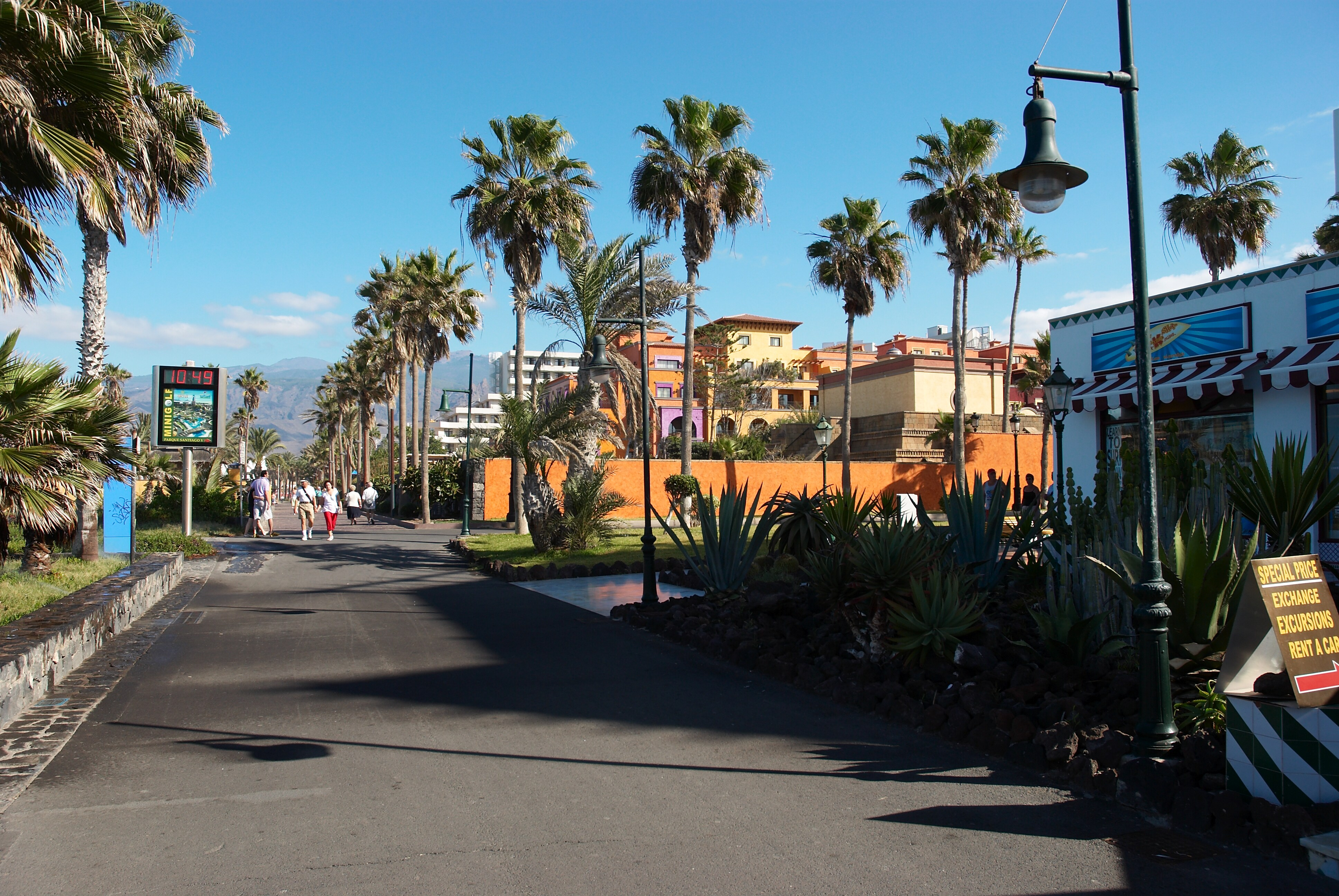 Calle Francisco Andrade Fumero, the walking promenade along the beach of Playa de las Américas, Tenerife, Spain